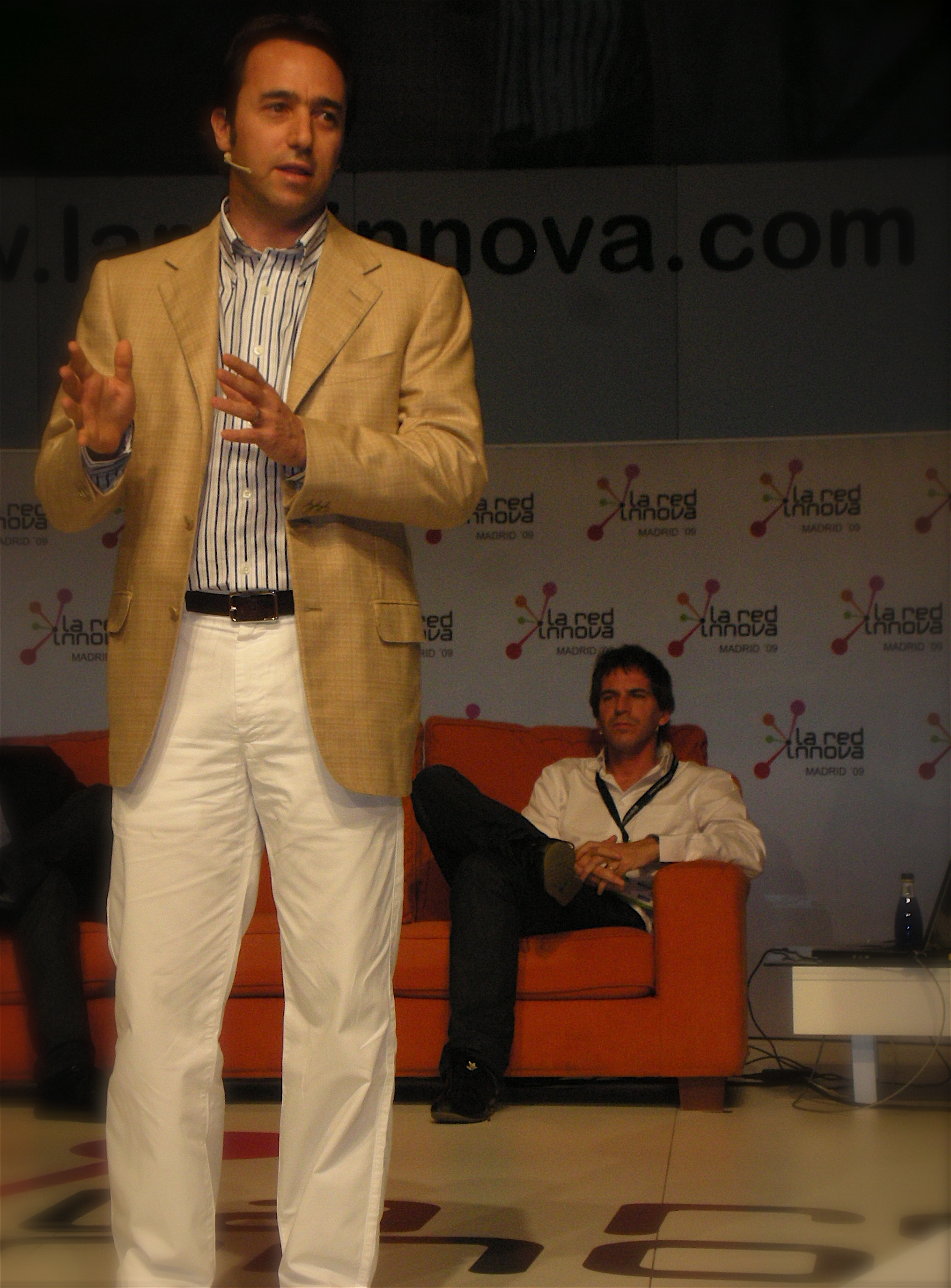 Argentine businessman Marcos Galperin and Alec Oxenford